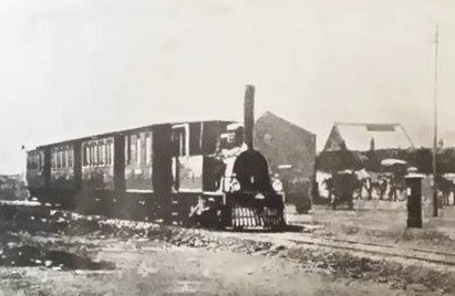 NZASM 14 Tonner on the Rand Tram line from Johannesburg to Boksburg